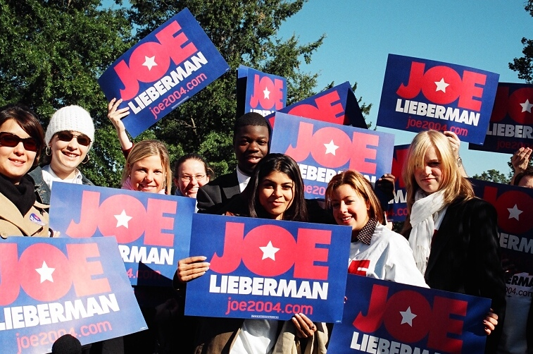 Democratic National Committee Fall Meeting at the Washington Marriott Wardman Park Hotel at 2660 Woodley Road, NW, Washington DC on Friday, 3 October 2003 by Elvert Barnes Protest Photography Joe Lieberman Presidential Campaign 2004 Elvert Barnes PROTEST PHOTOGRAPHY at